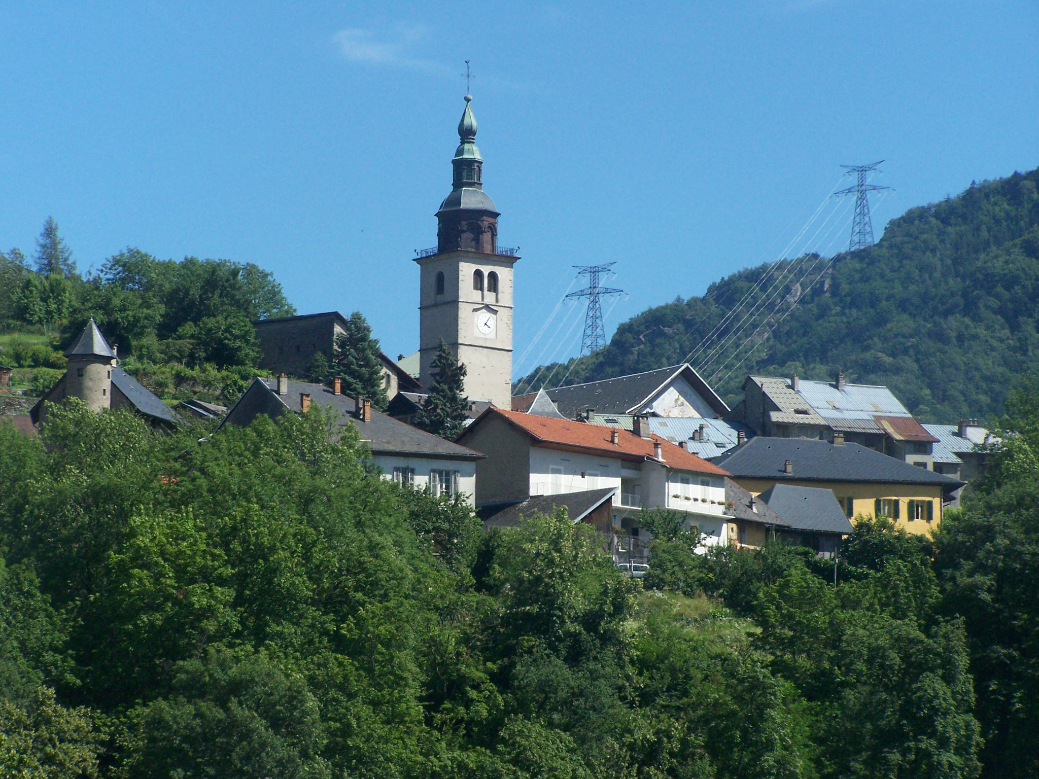 The old medieval city of Conflans, near Albertville, Savoie, France.